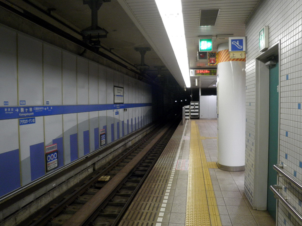 Komagabayashi Station